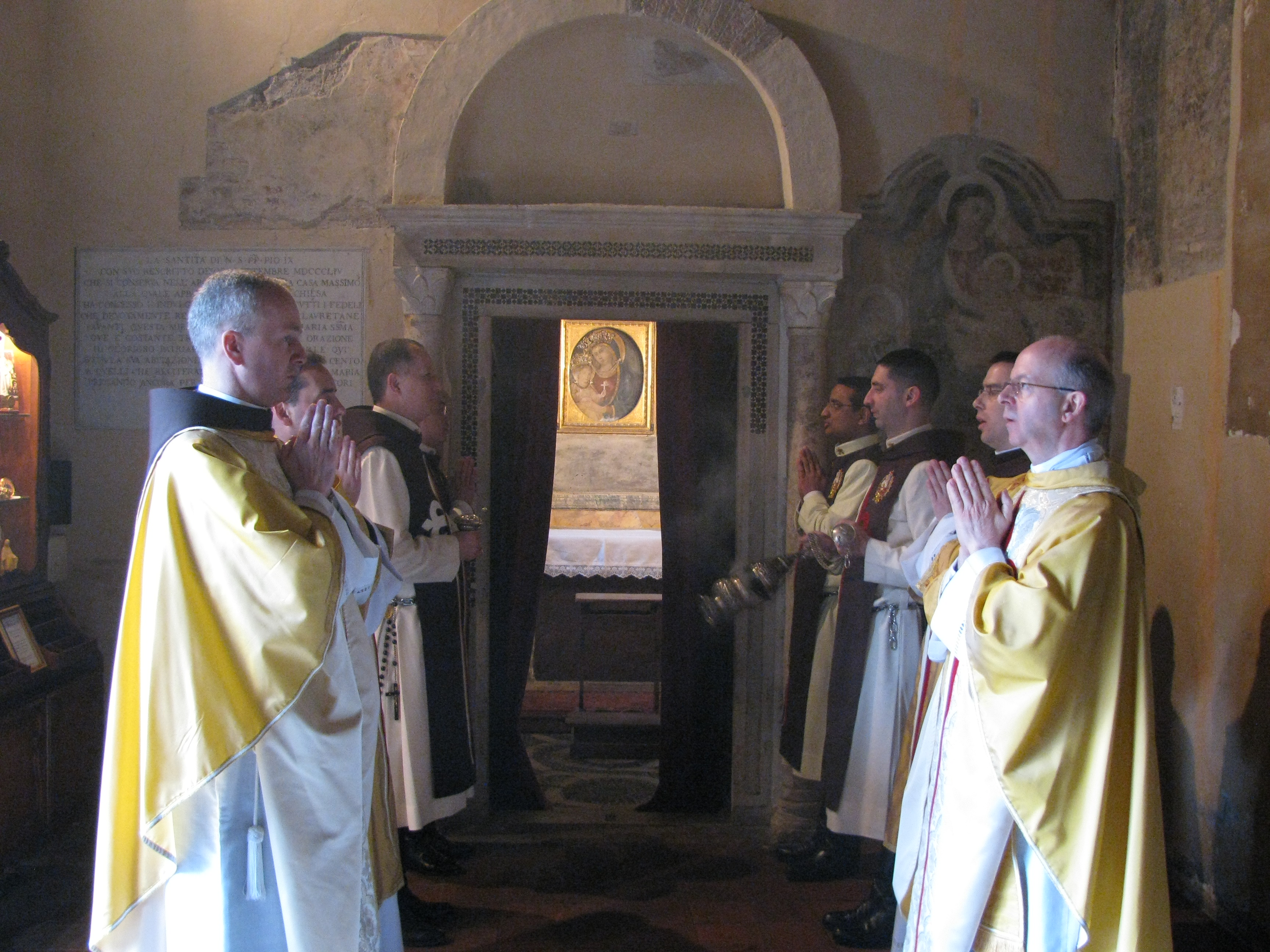 Picture taken on Holy Week. The Heralds of the Gospel in their church of San Benedetto in Piscinula in Rome